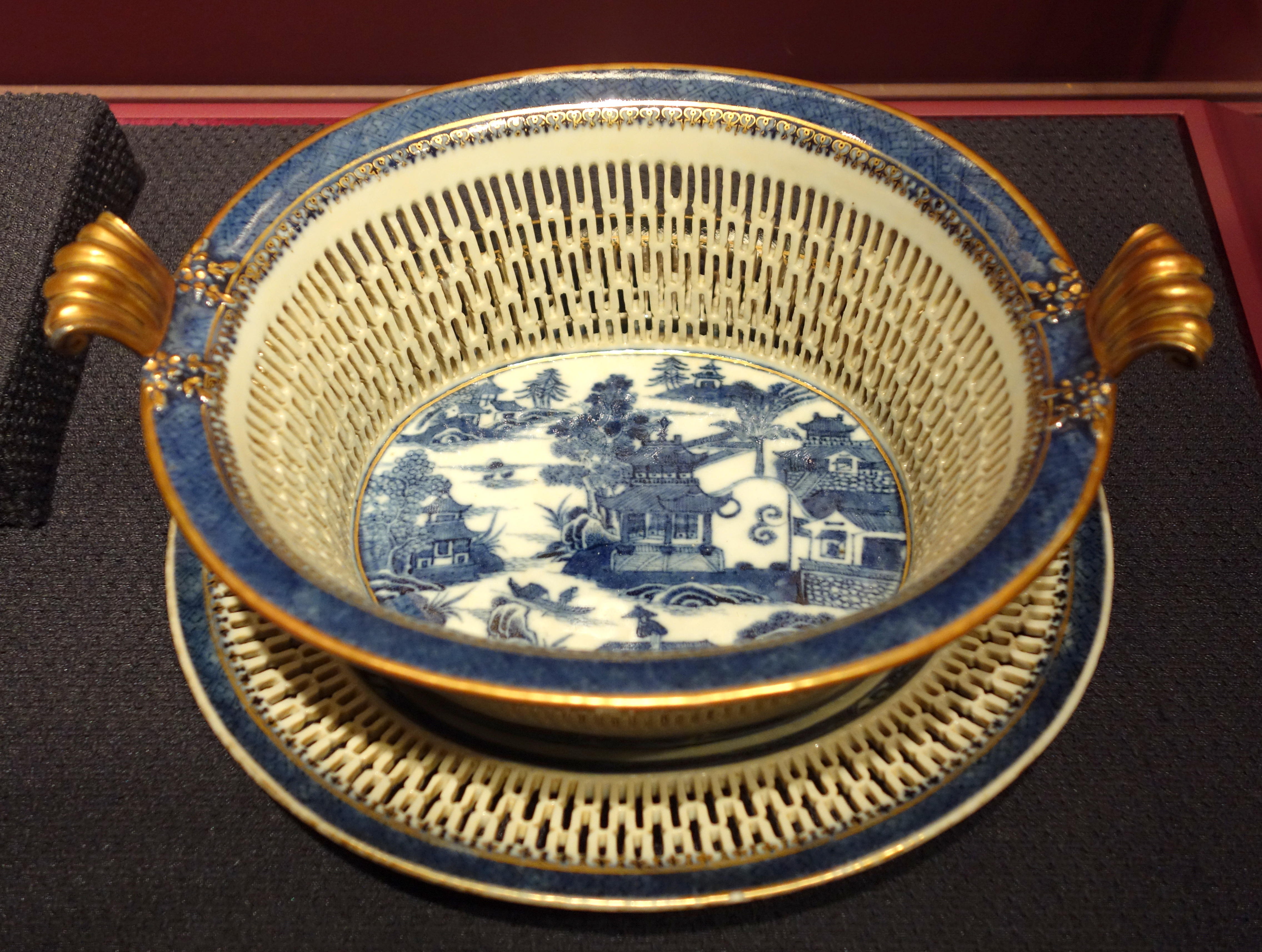 Exhibit in the Brooklyn Museum - Brooklyn, New York, USA. This artwork is in the public domain because the artist died more than 70 years ago.